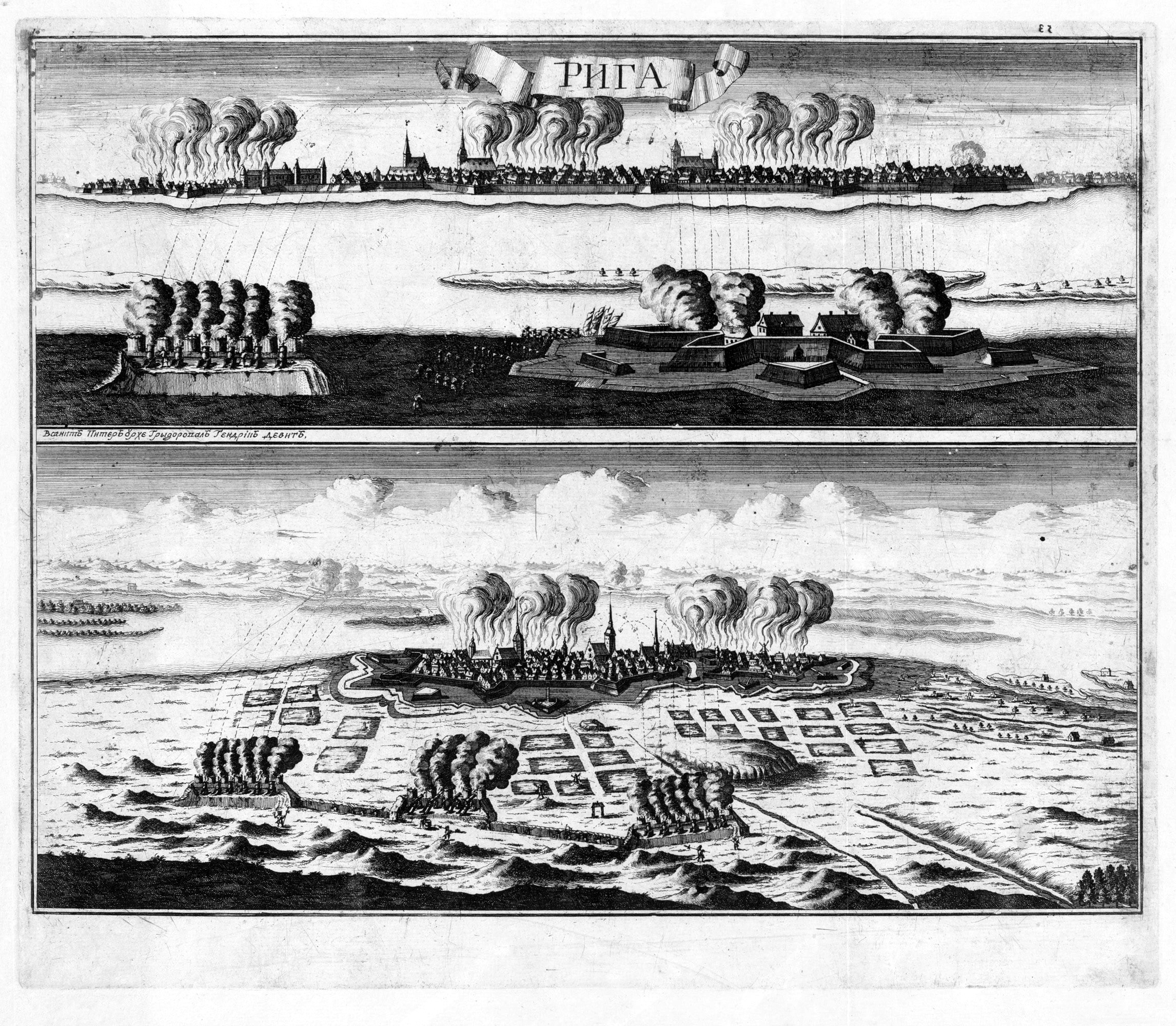 riga plan